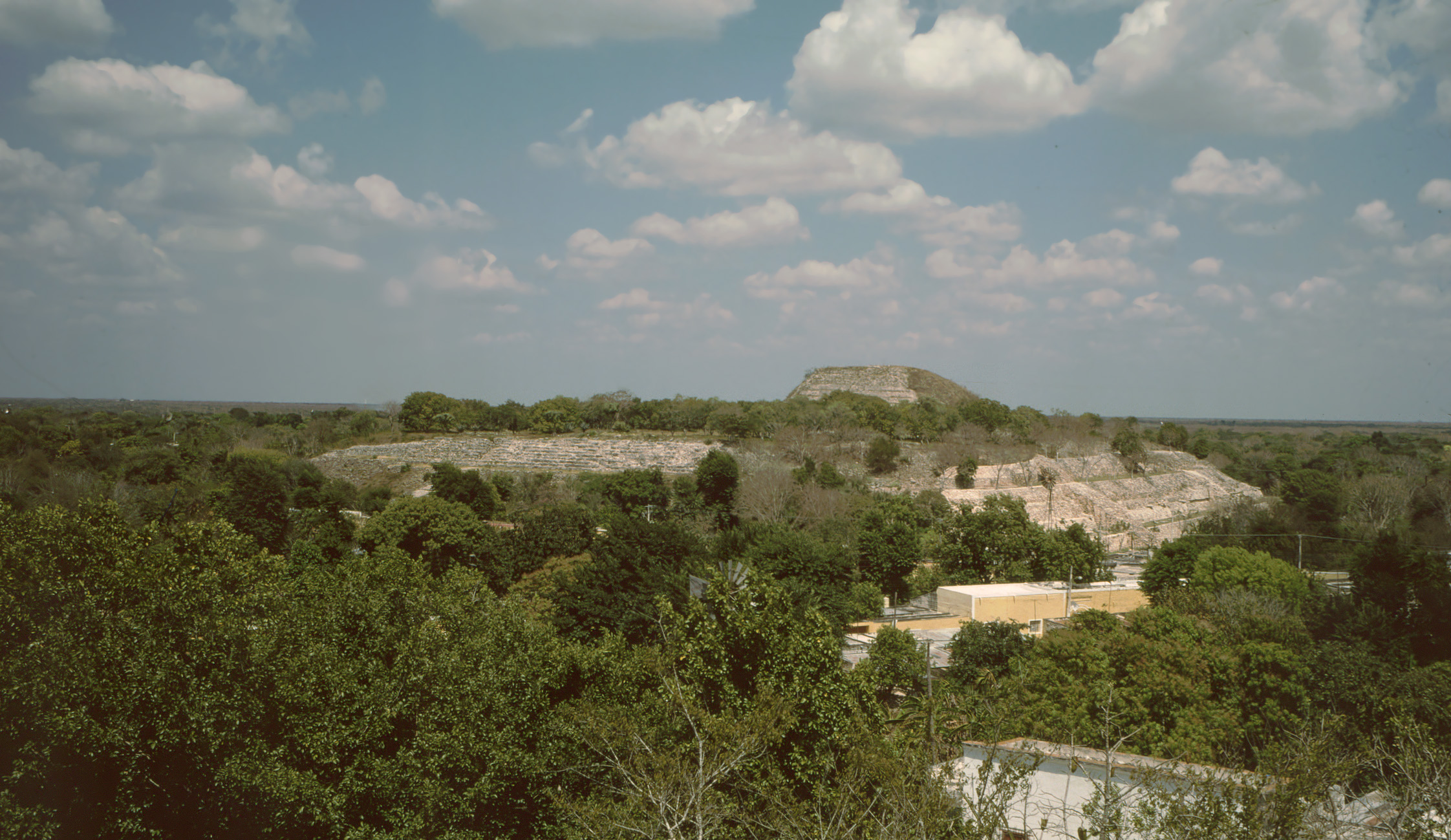 Izamal,Yucatan, Mexico: Pyramid Kinich Kak Moo